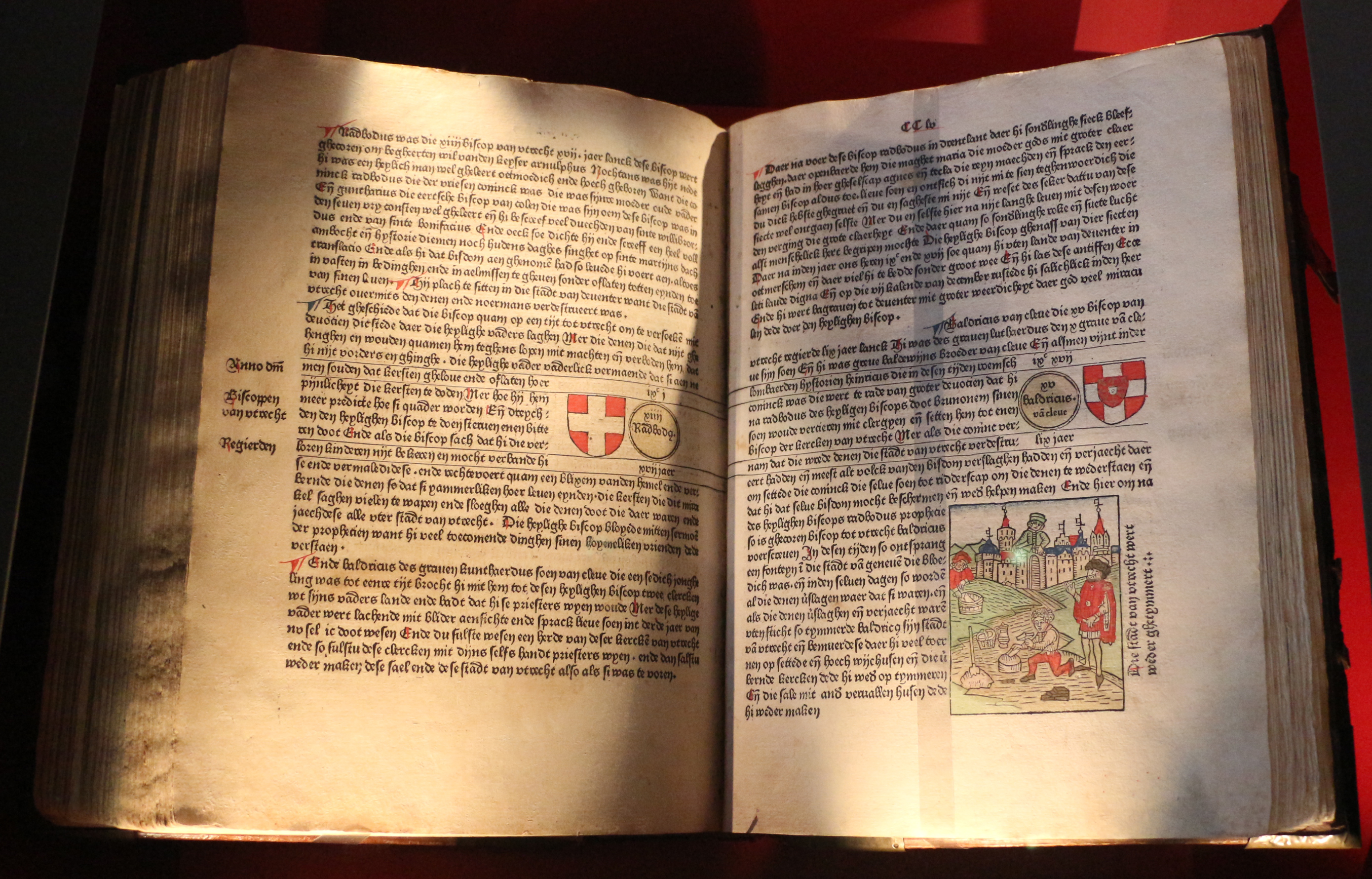 Books in the Museum Catharijneconvent